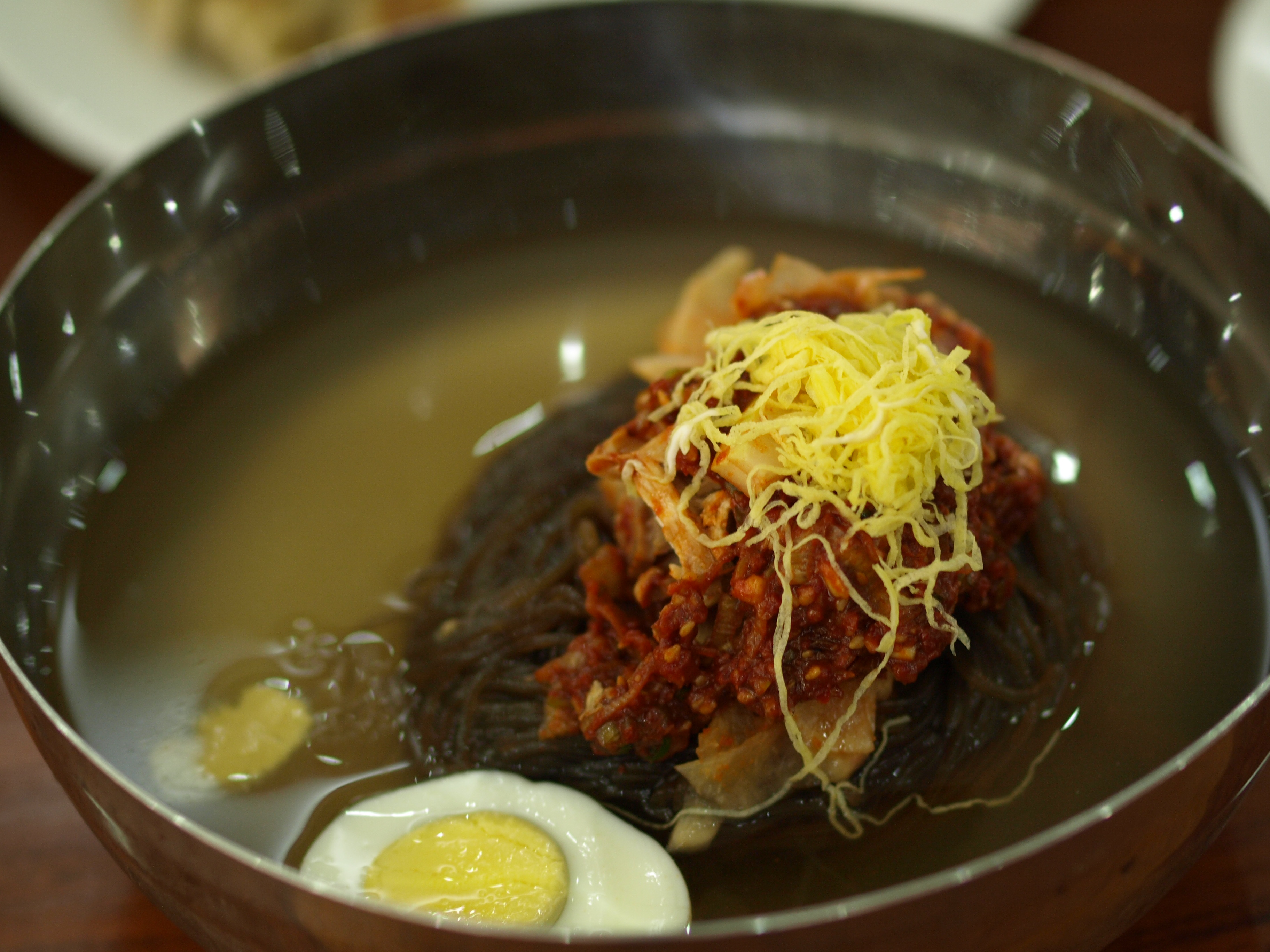 Naemyeong, Korean cold noodle soup